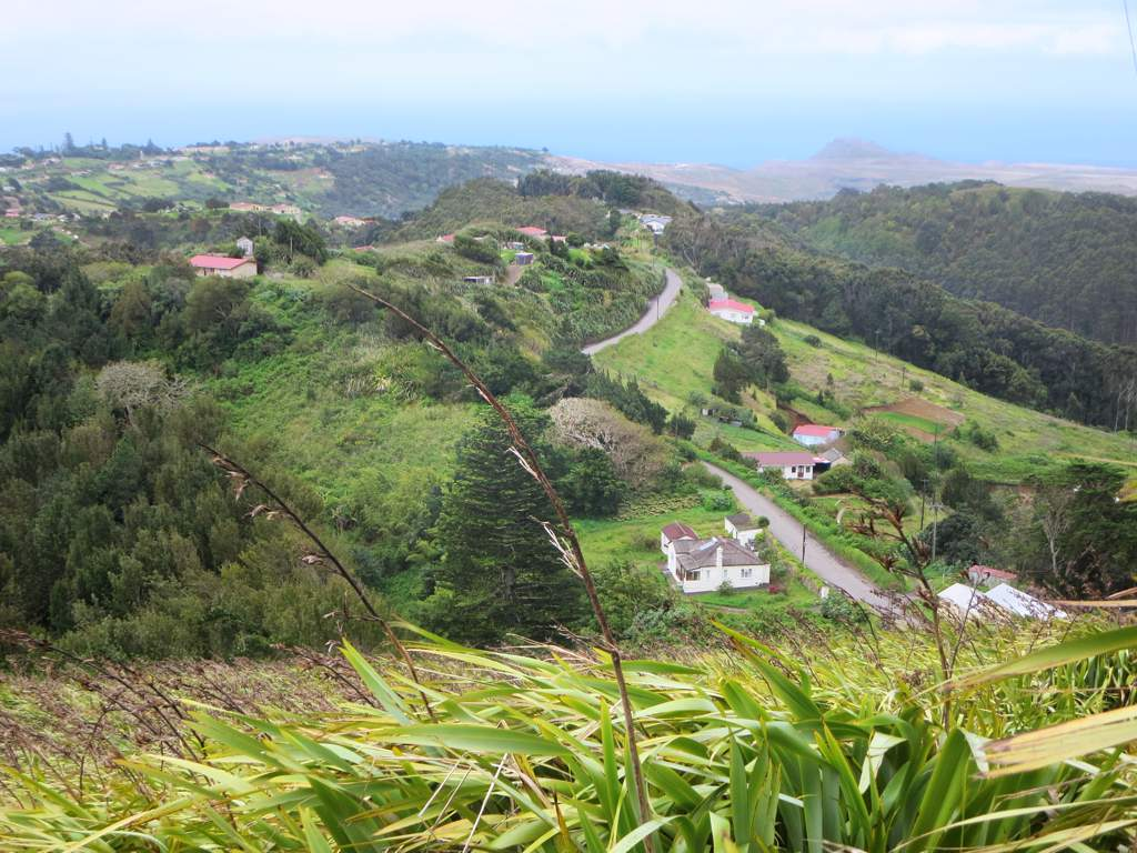 Longwood in northeastern St Helena Island stretches along a scenic ridge. Napoleon Bonaparte's place of exile was in this area.